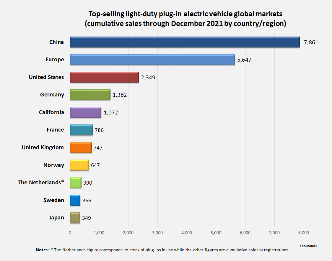 Top-selling highway-legal light-duty plug-in electric vehicle country or regional markets by cumulative sales or registrations through December 2019. Figure for the Netherlands corresponds to stock on the road. Data for stock at December 2016 from Europe, China, and the U.S. from , for California from CNCDA, for Japan and Norway from , for France from , for the Netherlands from RVO, for the UK from , and for Germany from KBA. U.S. Tesla sales for 3Q 2016 were revised/updated based upon information provided from the company. The combined effect of both Tesla models was 1,116 less units than originally estimated, so the revised current-year-to-date figure for U.S. sales through September is 108,397 units, and cum sales since 2008 is 521,403. Figures through December 2016 from . Japanese stock updated with data from IEA Outlook 2017 and California stock updated with actual data from CNCDA (2014-2017). Data for additional sales or registrations in 2017: China, Europe, and Japan - EV-sales; United States - HybridCARs, Norway - OFV, France - AVERE France, UK- SMMT, Germany - KBA, the Netherlands - RVO, and California 4Q 2017 from CNCDA. Data for additional sales or registrations in 2018 China: Gasgoo News US: InsideEVs Europe: EV Sales California: CNCDA (2014-2018) Norway: Norsk Elbilforening (stock at the end of 2018) Japan: EV Sales UK: Next Green Car (stock at the end of 2018) Germany: KBA France: AVERE France Netherlands: RVO (stock in use at the end of 2018) Canada: EV Sales Data for additional sales or registrations in 2019 China: EIA Global EV Outlook 2020 US: InsideEVs Europe: ACEA California: CNCDA (2015-2019) Norway: Norsk Elbilforening (stock at the end of 2019) Germany: KBA Japan: EIA Global EV Outlook 2020 UK: Next Green Car (stock at the end of 2019) France: AVERE France Netherlands: RVO (stock in use at the end of 2019) Canada: EIA Global EV Outlook 2020